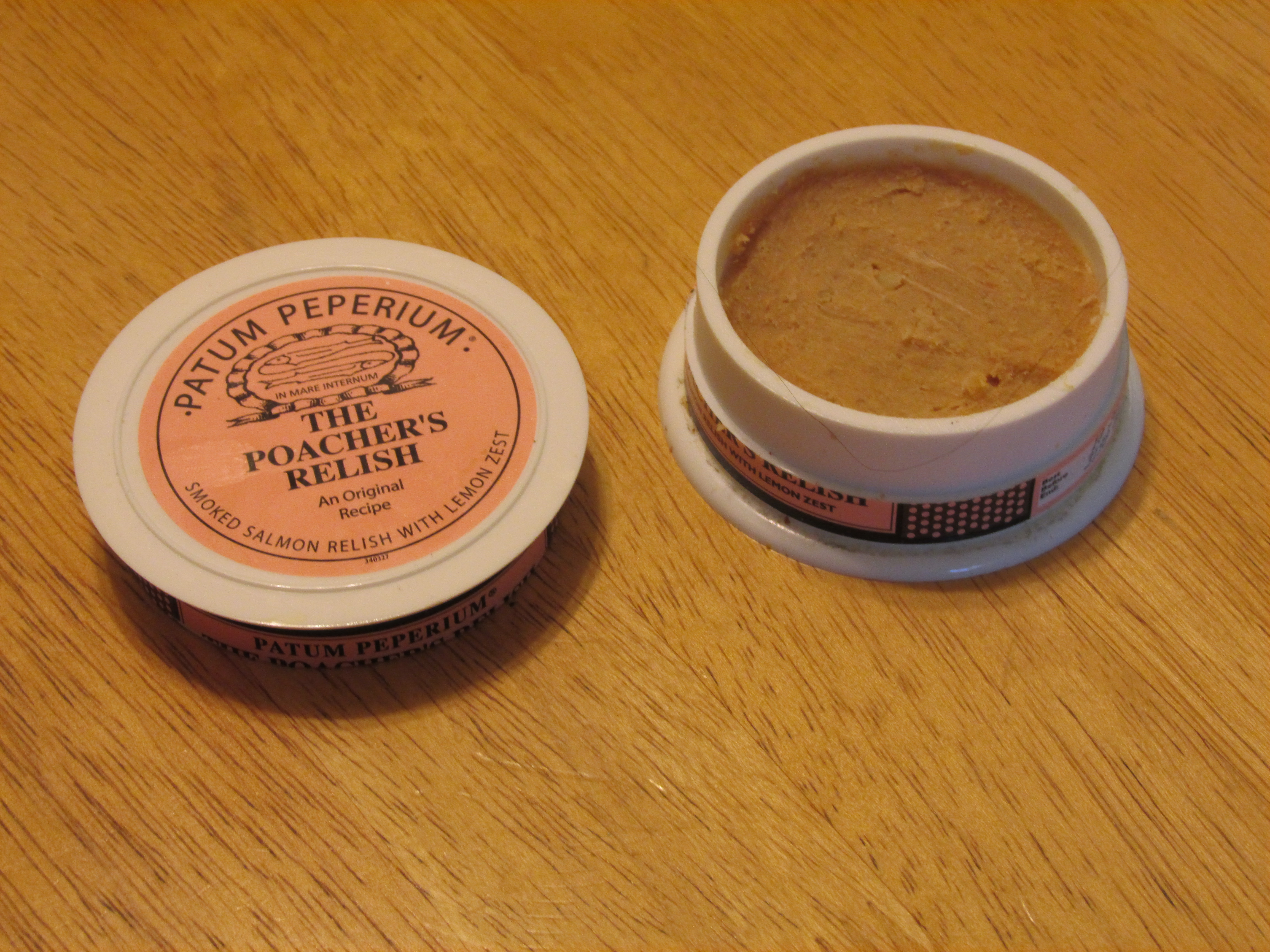 This is a picture of an open pot of Patum Peperium Poacher's Relish (smoked salmon and lemon) spread